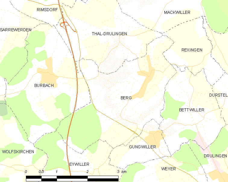 Map of French municipality